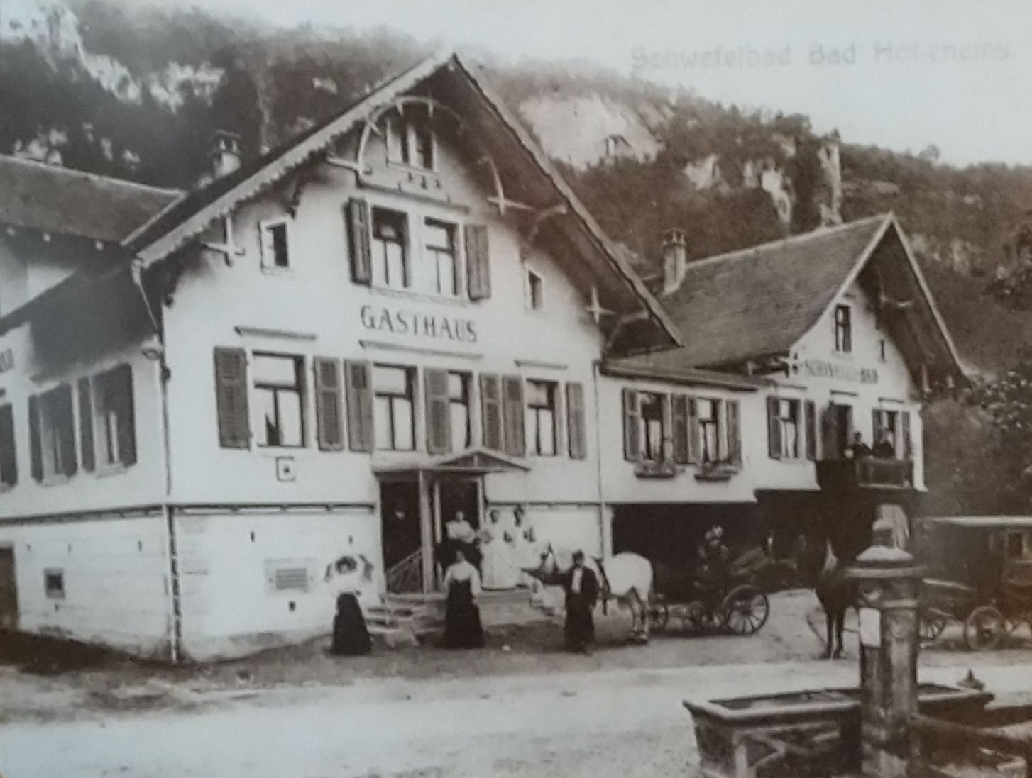 Old photograph of the sulfur bath in Hohenems, Vorarlberg, Austria, about 1900's.